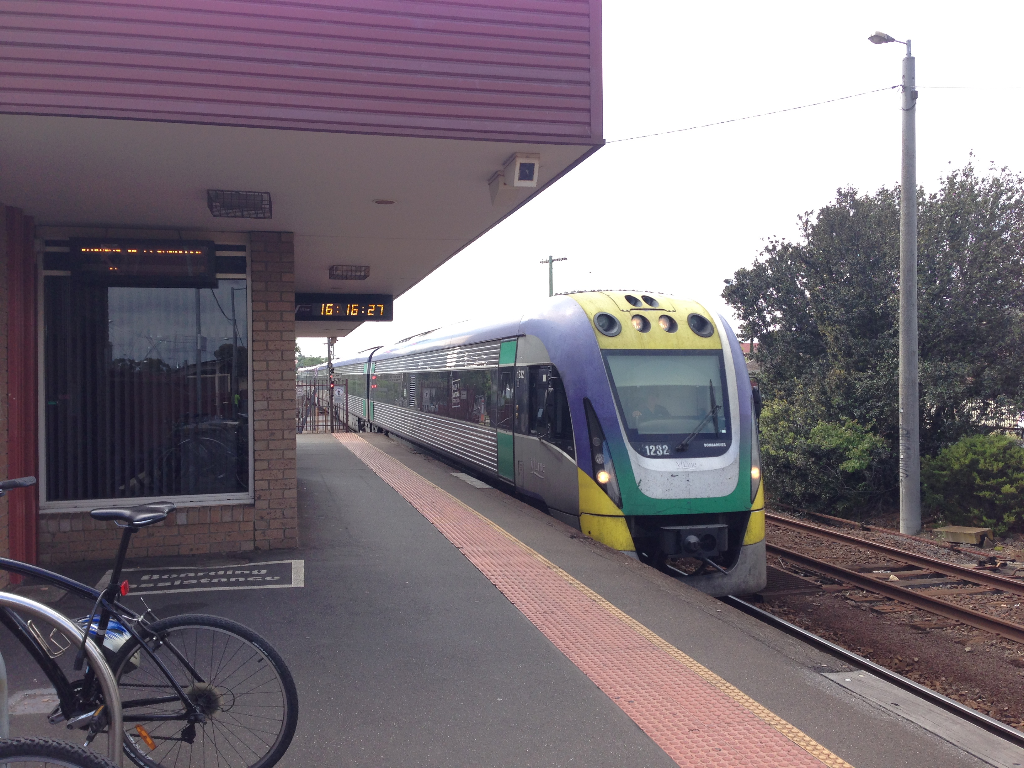 VLocity Warun Ponds service arriving at South Geelong.